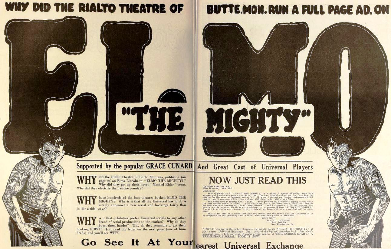 Ad for the American film serial Elmo the Mighty with Elmo Lincoln, on pages 728 and 729 of the July 19, 1919 Motion Picture News.